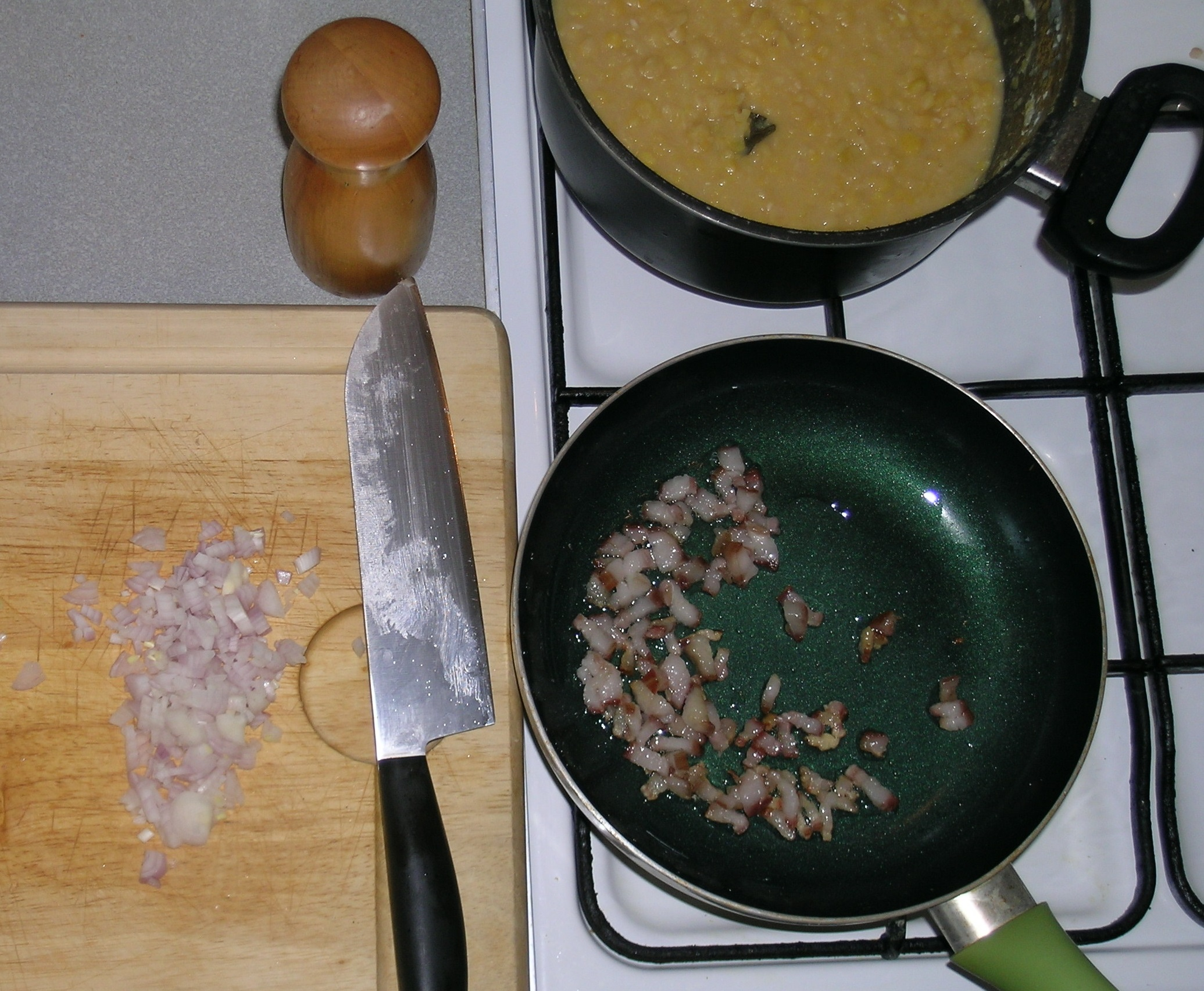 Pease pudding Polish style - frying bacon